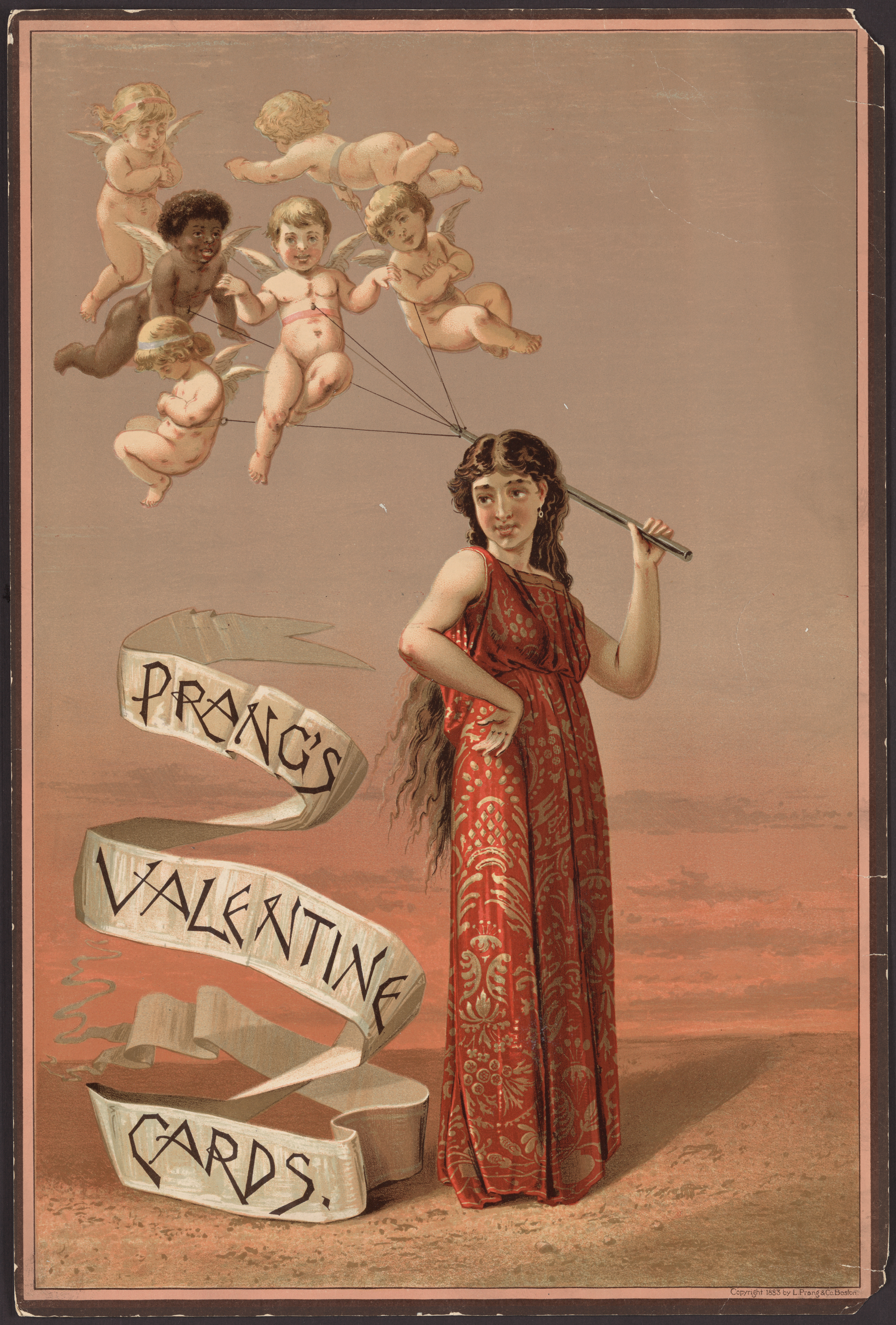 "Prang's Valentine cards" "Advertisement for Prang's greeting cards, showing a woman holding a group of tethered cherubs, who float like a bunch of balloons above her. One of the cherubs is portrayed as a baby of African descent." "1 print : lithograph, color"